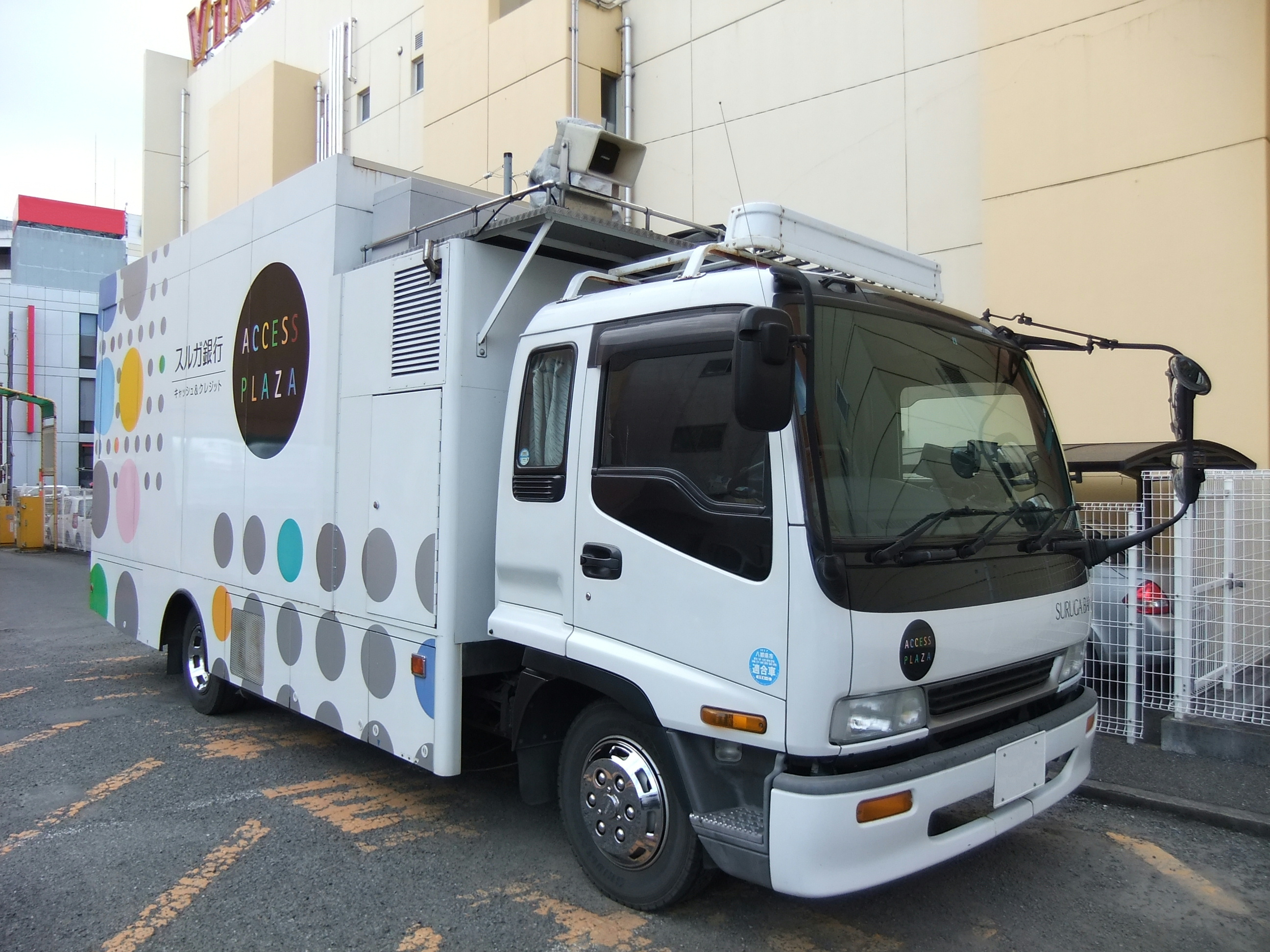 ISUZU, F-Series / FORWARD, The nickname of Suruga Bank is an Access Vehicle.（It is sold excluding a Japanese region by the name called F-series.）